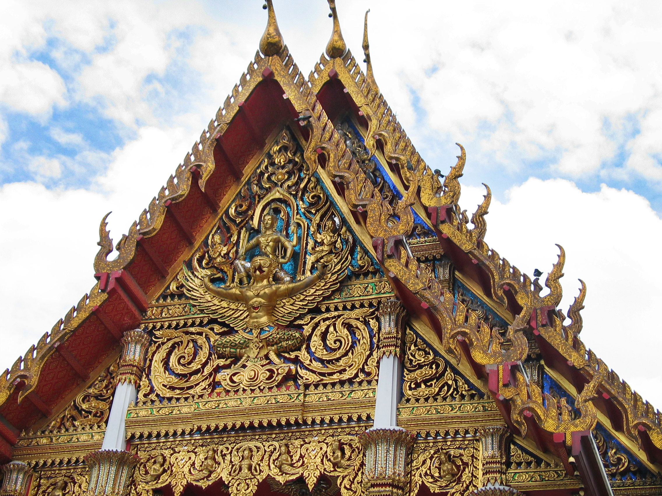 Pediment of Ubosot, Wat Ratchaburana, Bangkok, Thailand - showing Hindu god Vishnu on his mount Garuda.